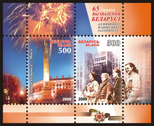 Stamp of Belarus